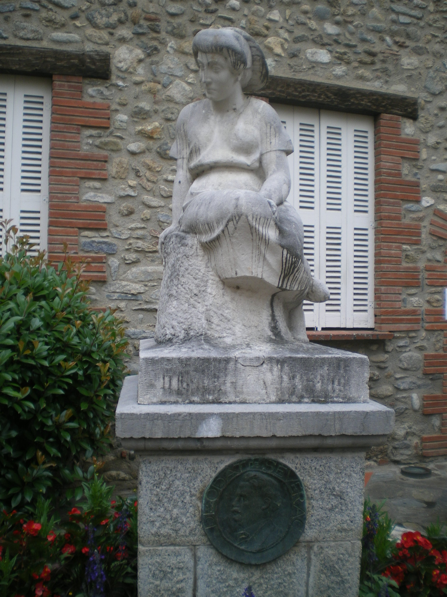 statue of Magali de Severac by Manolo Hugué. Ceret